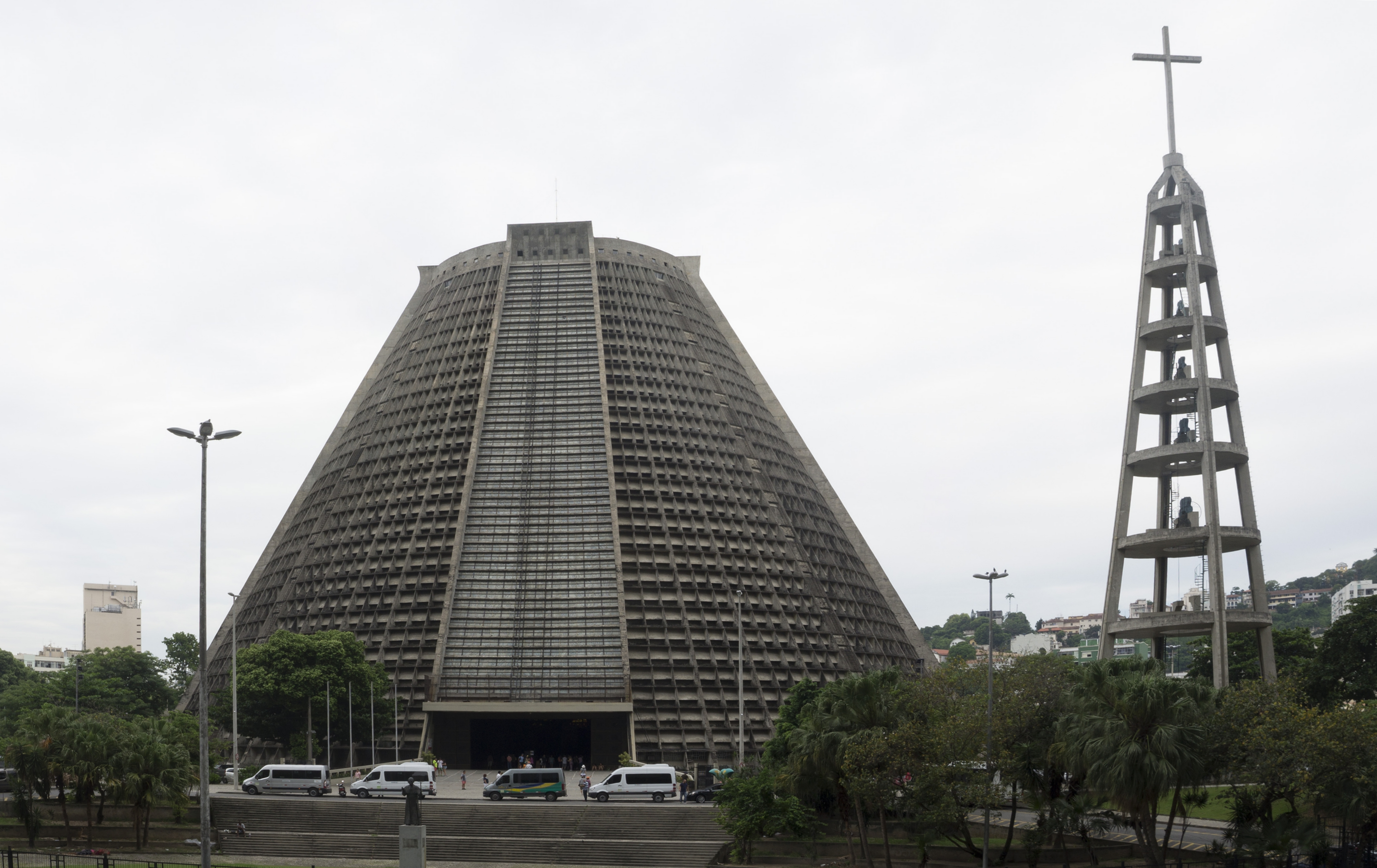 View of the front of Cathedral of Saint Sebastian, Rio de Janeiro, Brazil